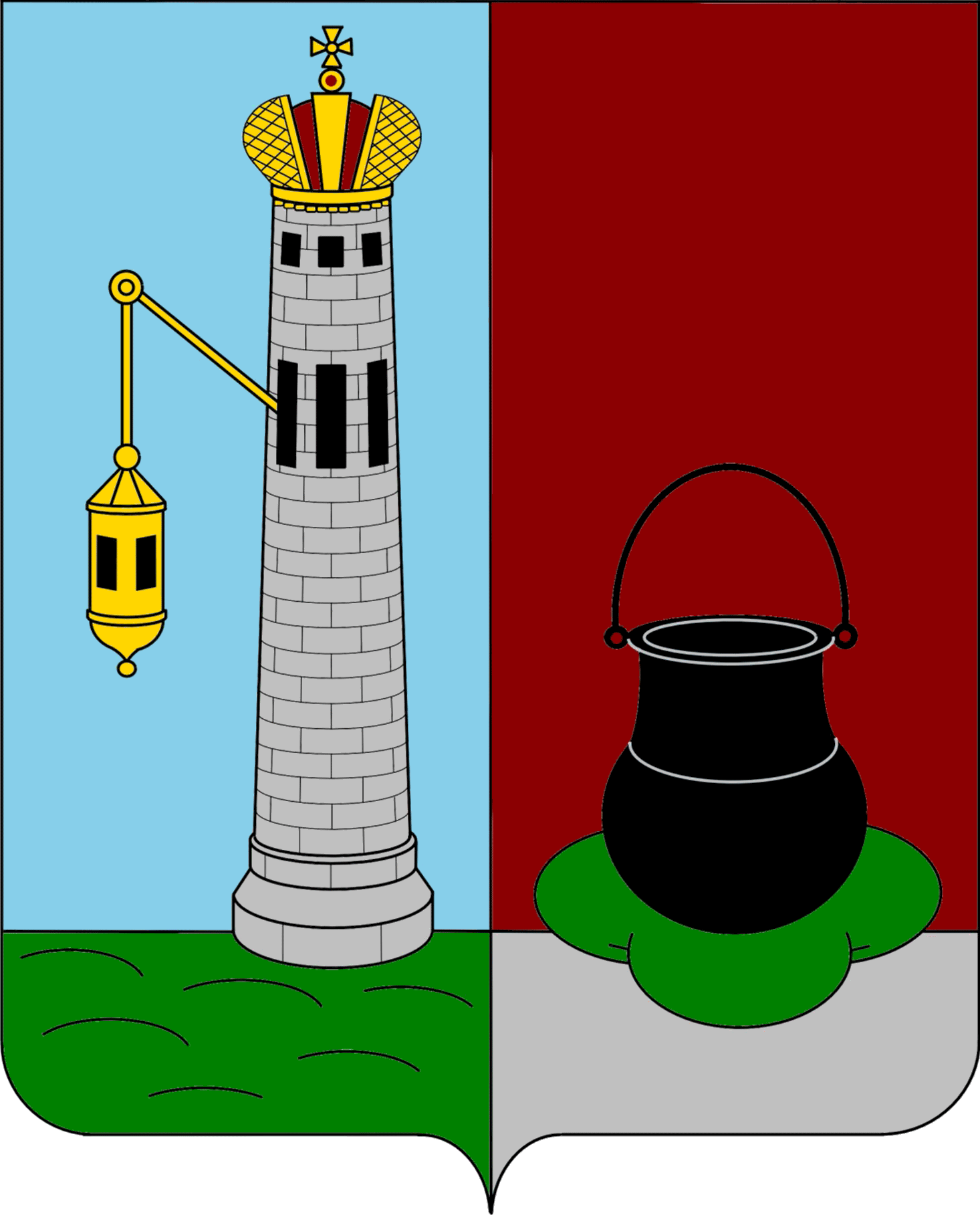 Coat of Arms of Kronshtadt, Saint Petersburg, Russia